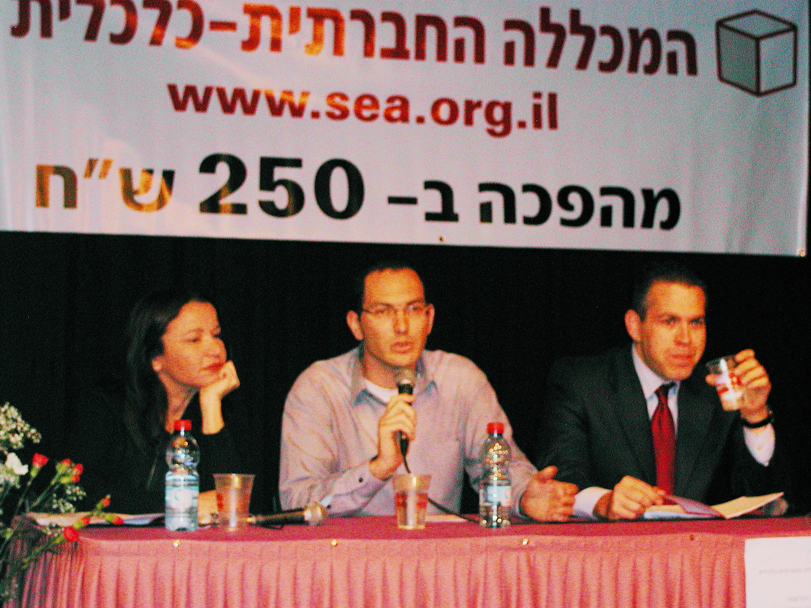 Social Economic Academy semester opening